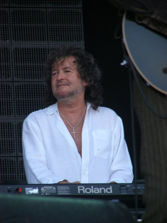 Darren Wharton live with Thin Lizzy